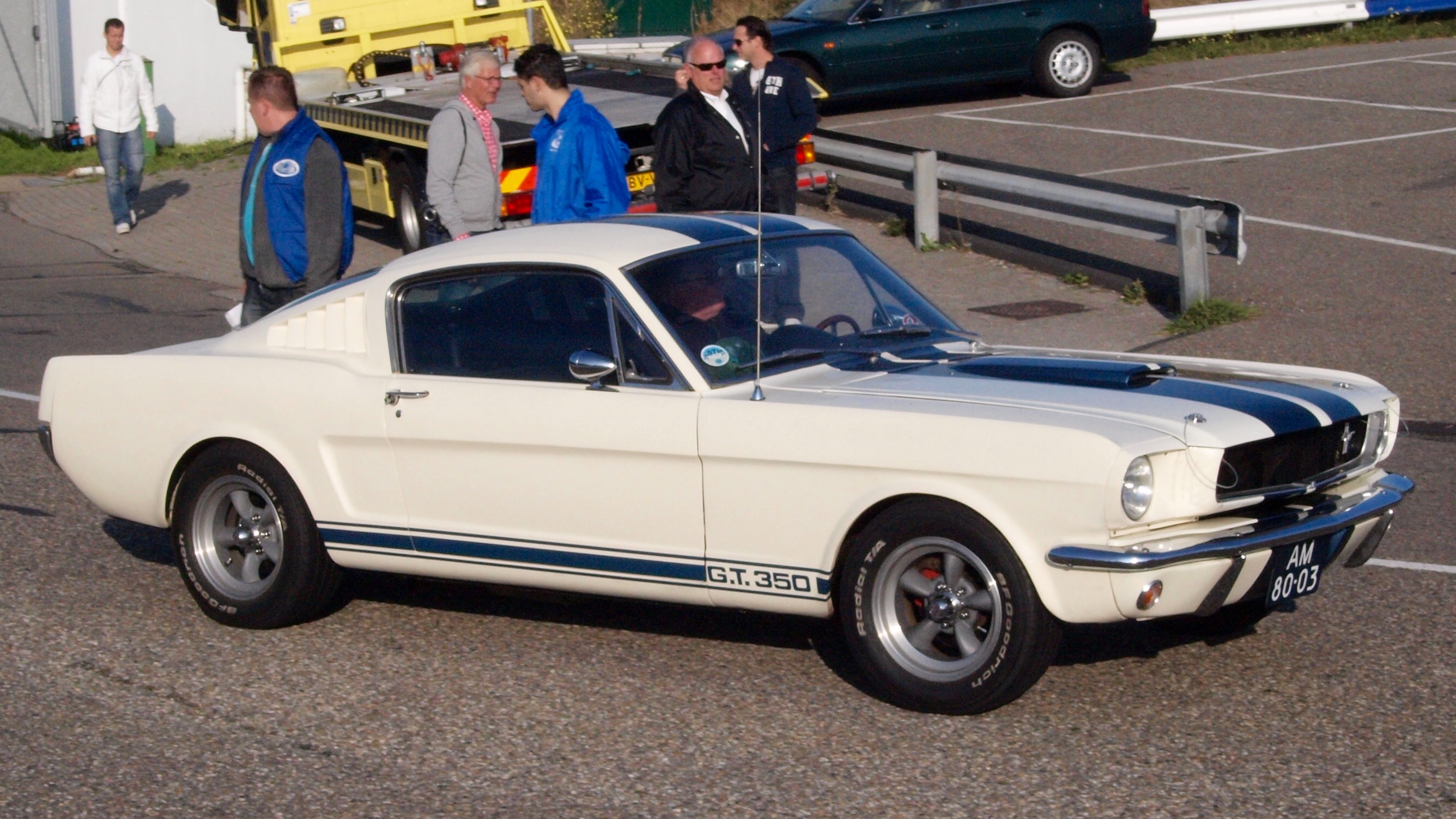 Photographed at the Nationaal Oldtimer Festival Zandvoort 2009, The Netherlands. OLYMPUS DIGITAL CAMERA